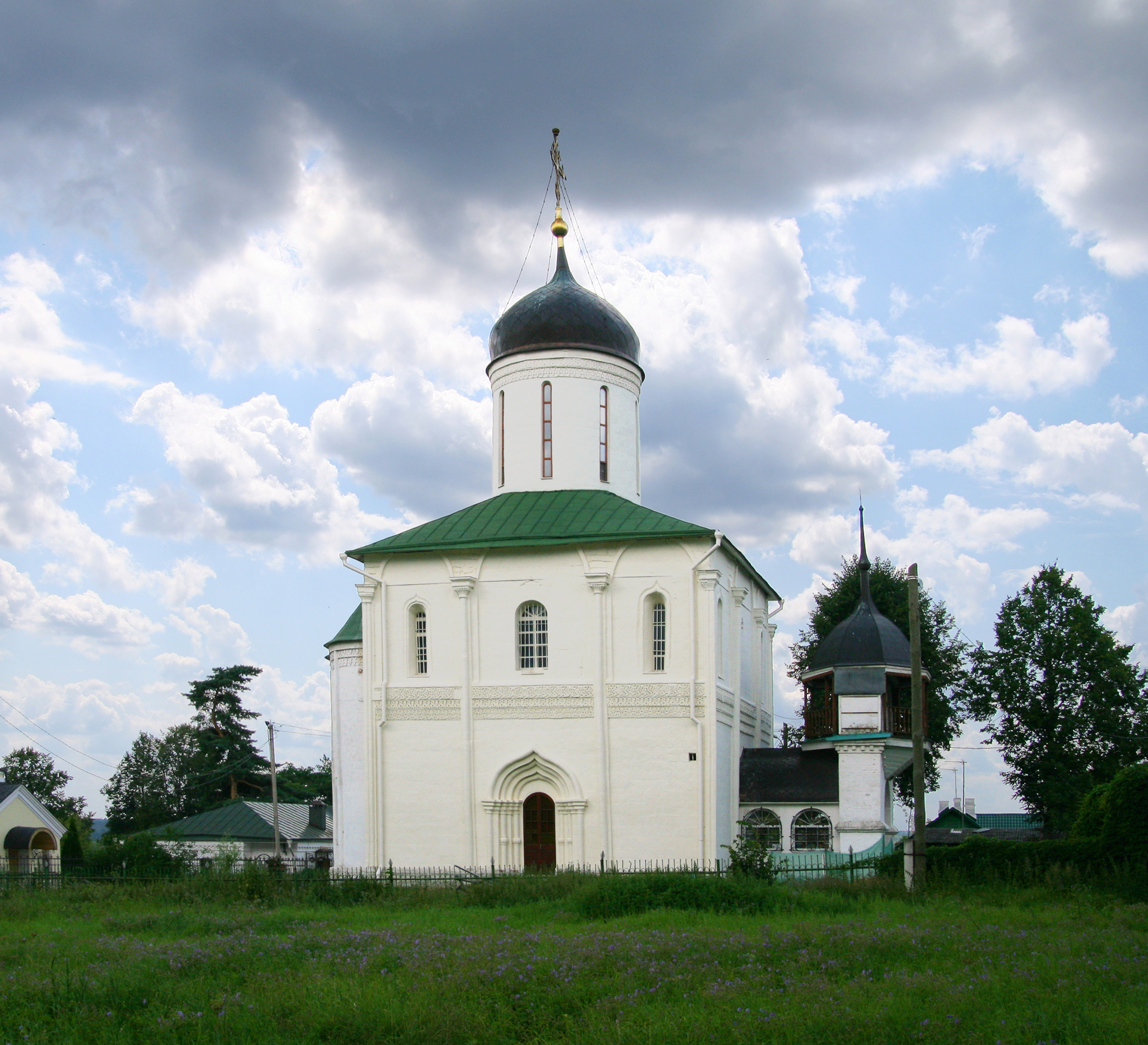 Church of the Dormition in Gorodok, 1396-1399, Zvenigorod, Moscow Oblast